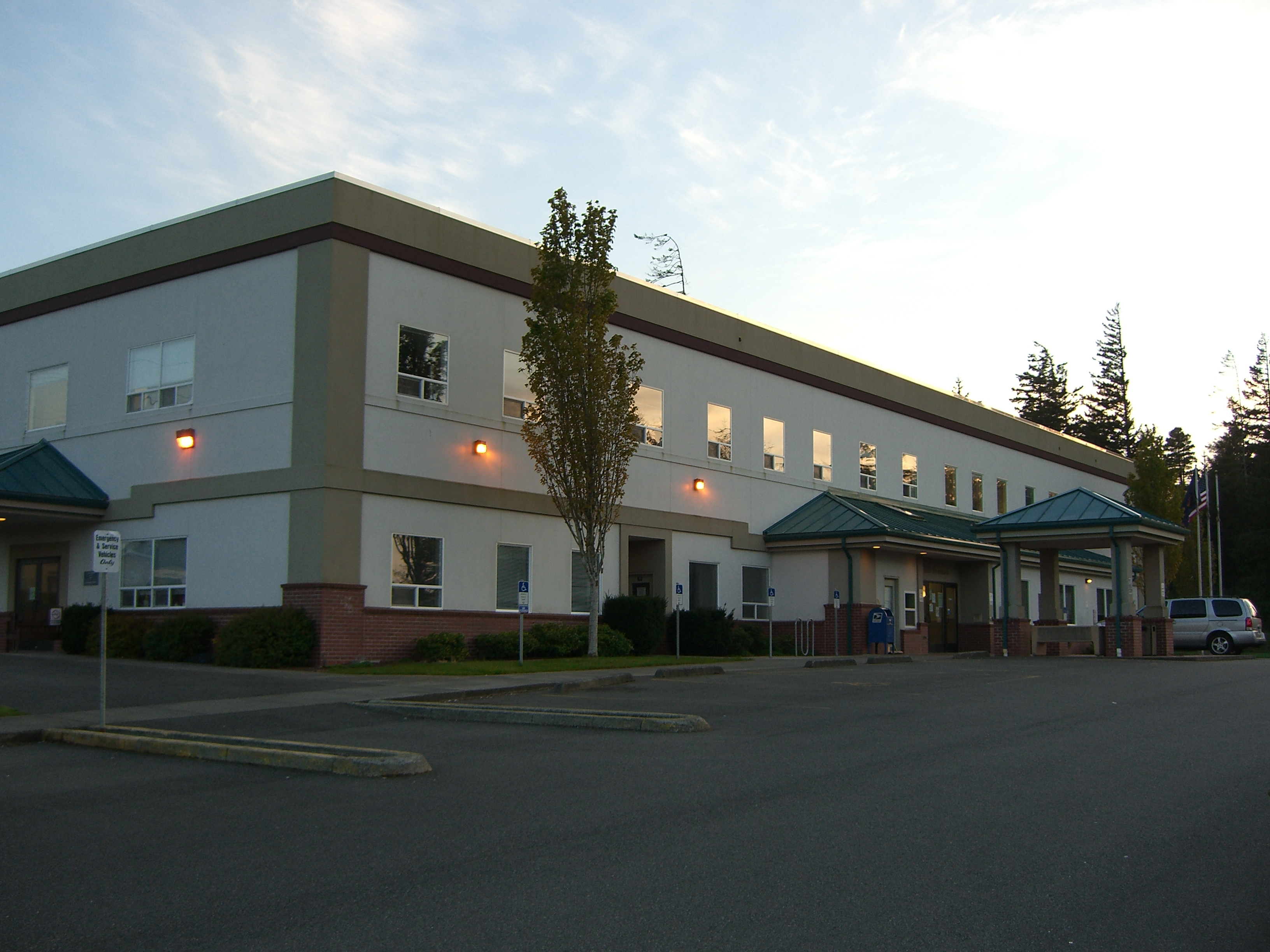 The Newmark Center, Southwestern Oregon Community College